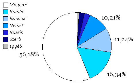 Population census 1910, Hungary